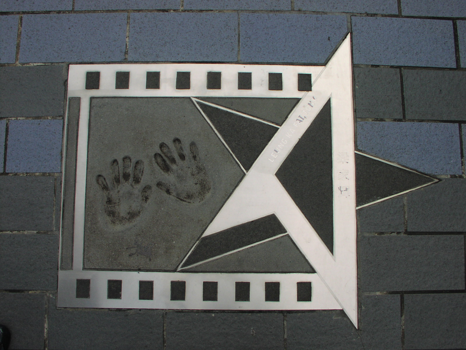 Avenue of Stars, Hong Kong